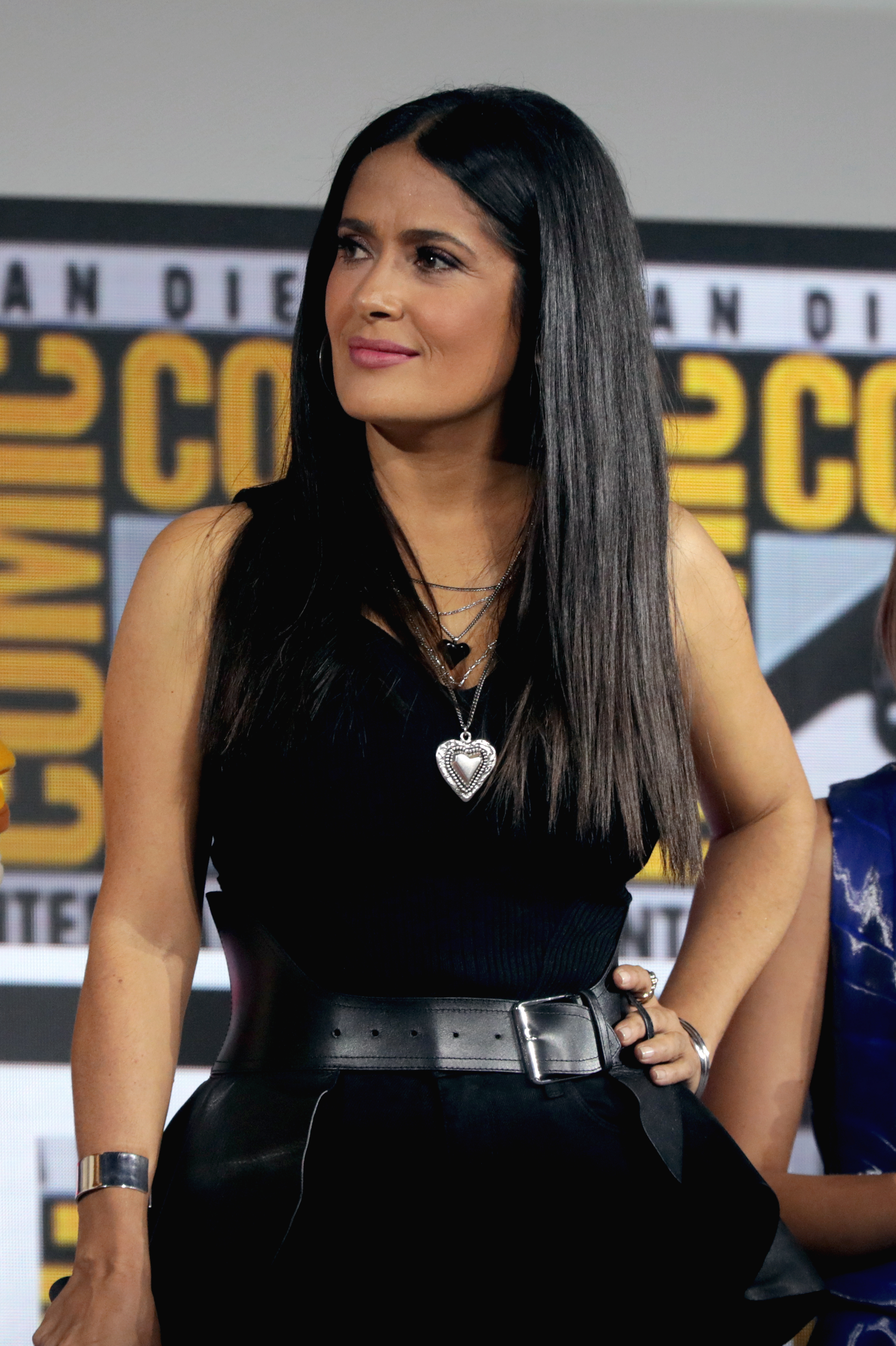 Salma Hayek speaking at the 2019 San Diego Comic Con International, for "The Eternals", at the San Diego Convention Center in San Diego, California.